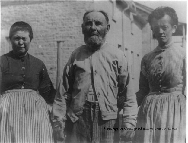 From : ph 9280 one male inmate and 2 female inmates standing arm in arm in front of the wash-house at the Wellington County House of Industry and Refuge